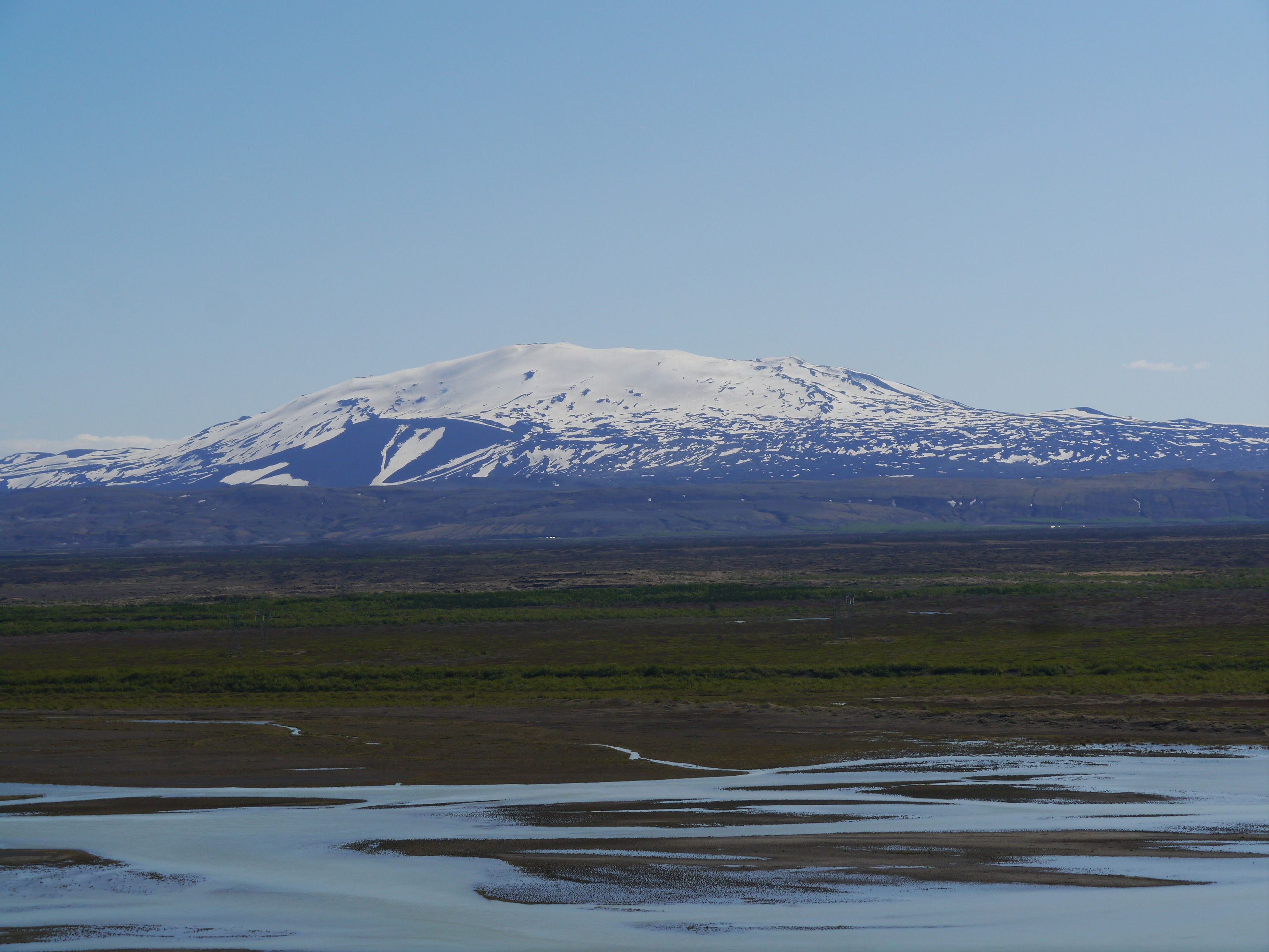 Hagi viewpoint next to Fossá River, Iceland